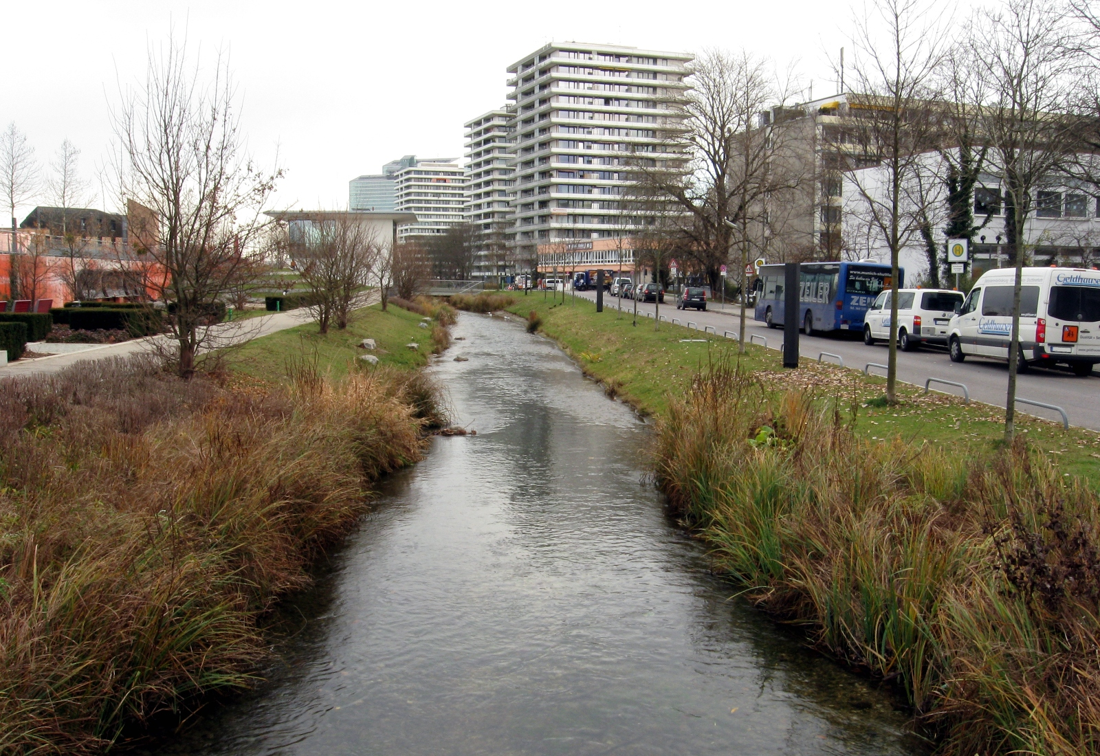 Nymphenburg-Biedersteiner Kanal in the Petuelpark in Munich (Bavarian, Germany) near “Platz an der Pfennigparade” (view eastwards)